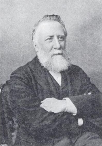 Photo of meteorologist George James Symons, 1838 - 1900.